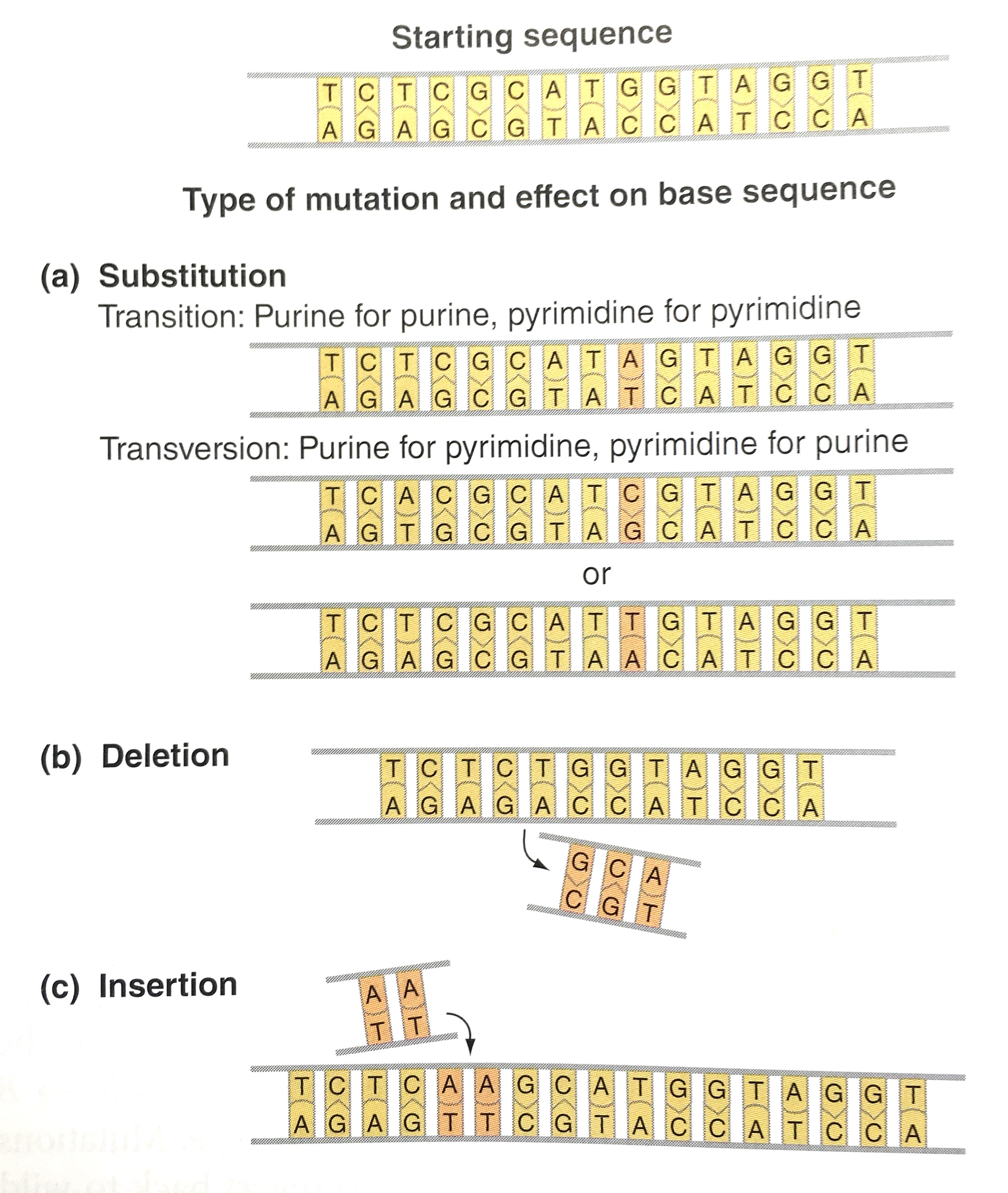 Three types of point mutations. Substitution, Deletion and Insertion.